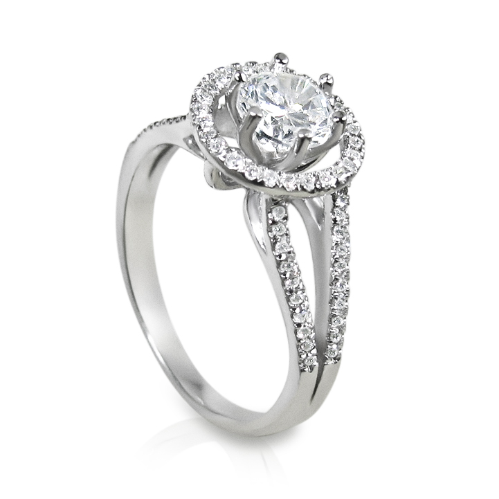 Engagement ring 18K white gold with a 1 karat diamong